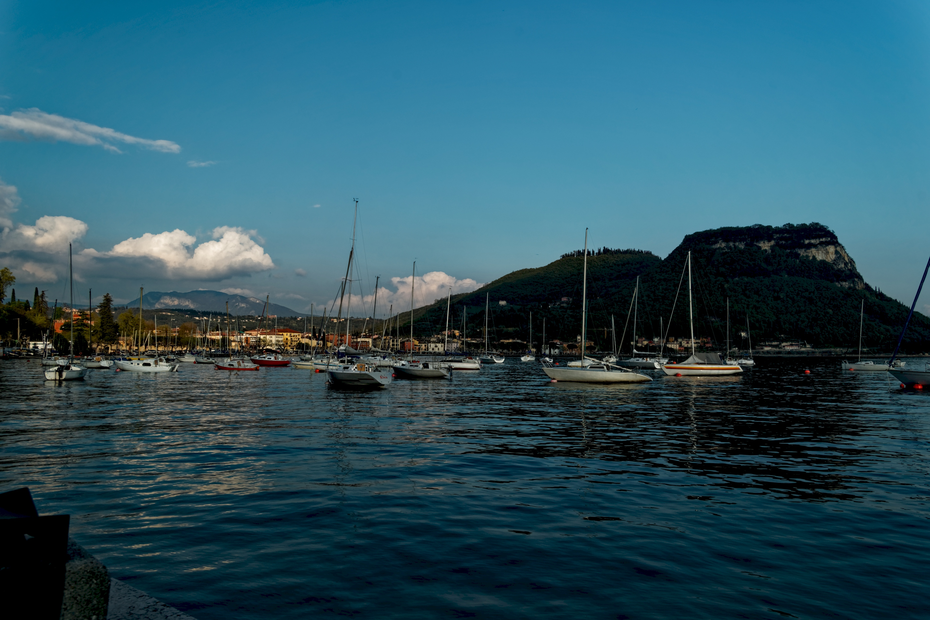 Lago di Garda - Garda - Via Guglielmo Marconi, Esplanade at the Lake - View East